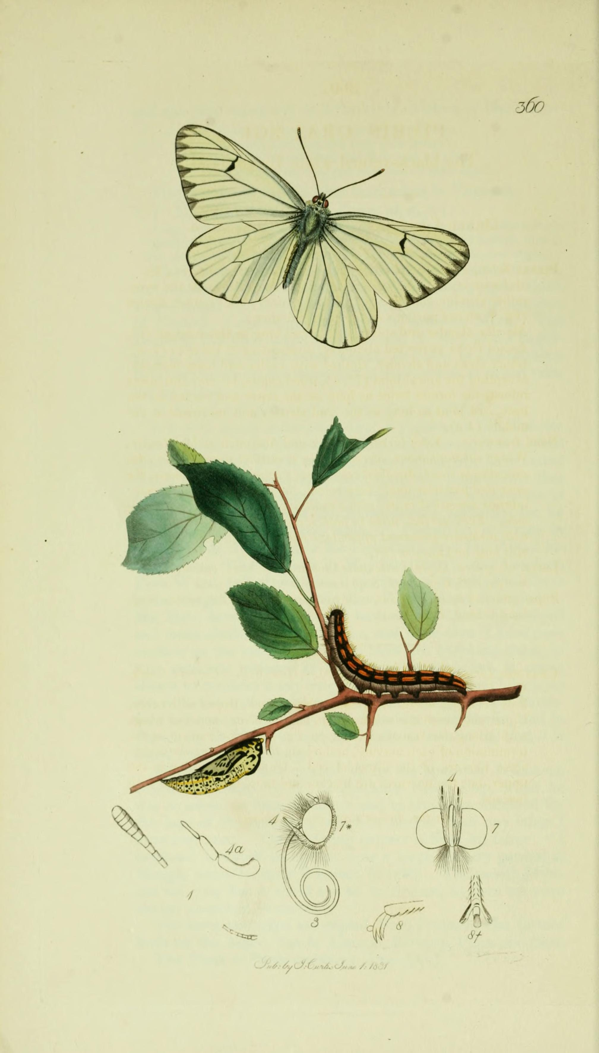 An illustration from British Entomology by John Curtis. Pieris crataegi or Aporia crataegi (Black-veined White).